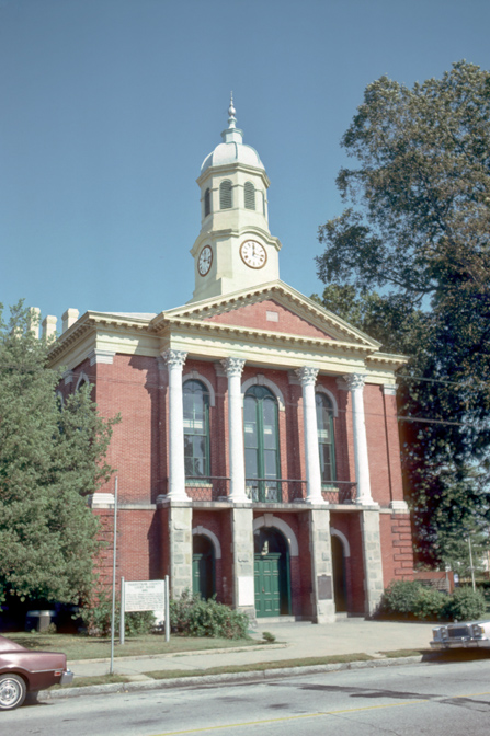 Front of the Pasquotank County Courthouse, located at 206 E. Main Street in Elizabeth City, North Carolina, United States. Built in 1882, it is part of the Elizabeth City Historic District, a historic district that is listed on the National Register of Historic Places.